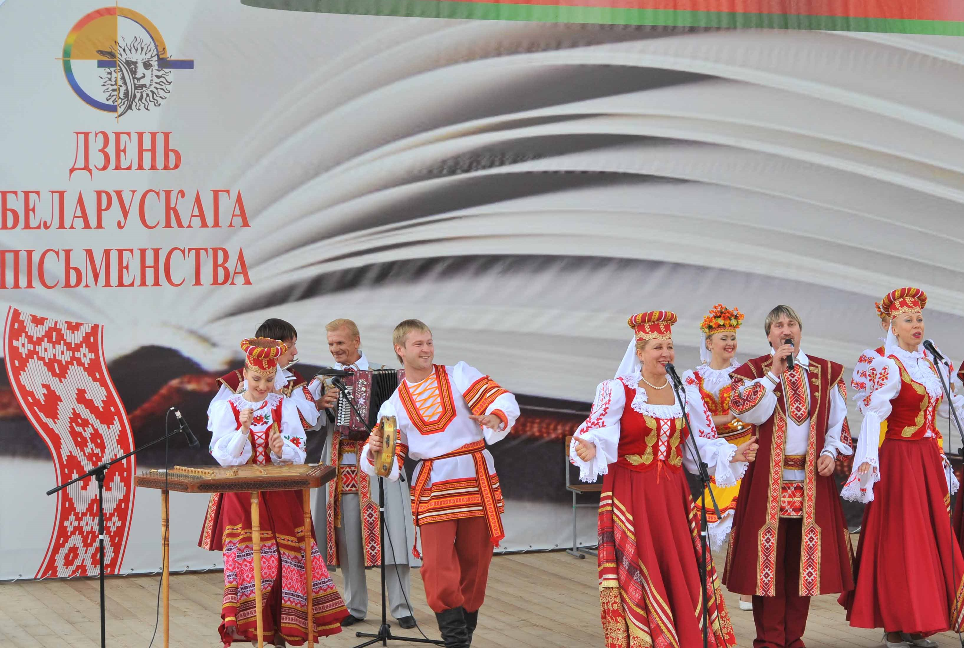 Day of Belarusian Writing in Chojniki, september 2010